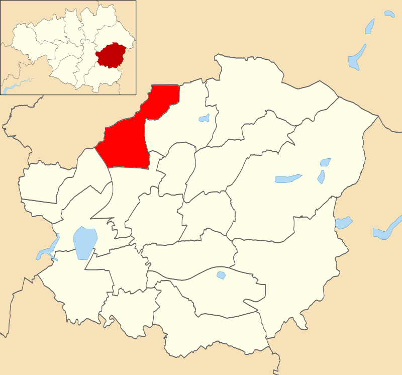 Map showing location of Ashton Waterloo Ward within Tameside Metropolitan Borough Council.